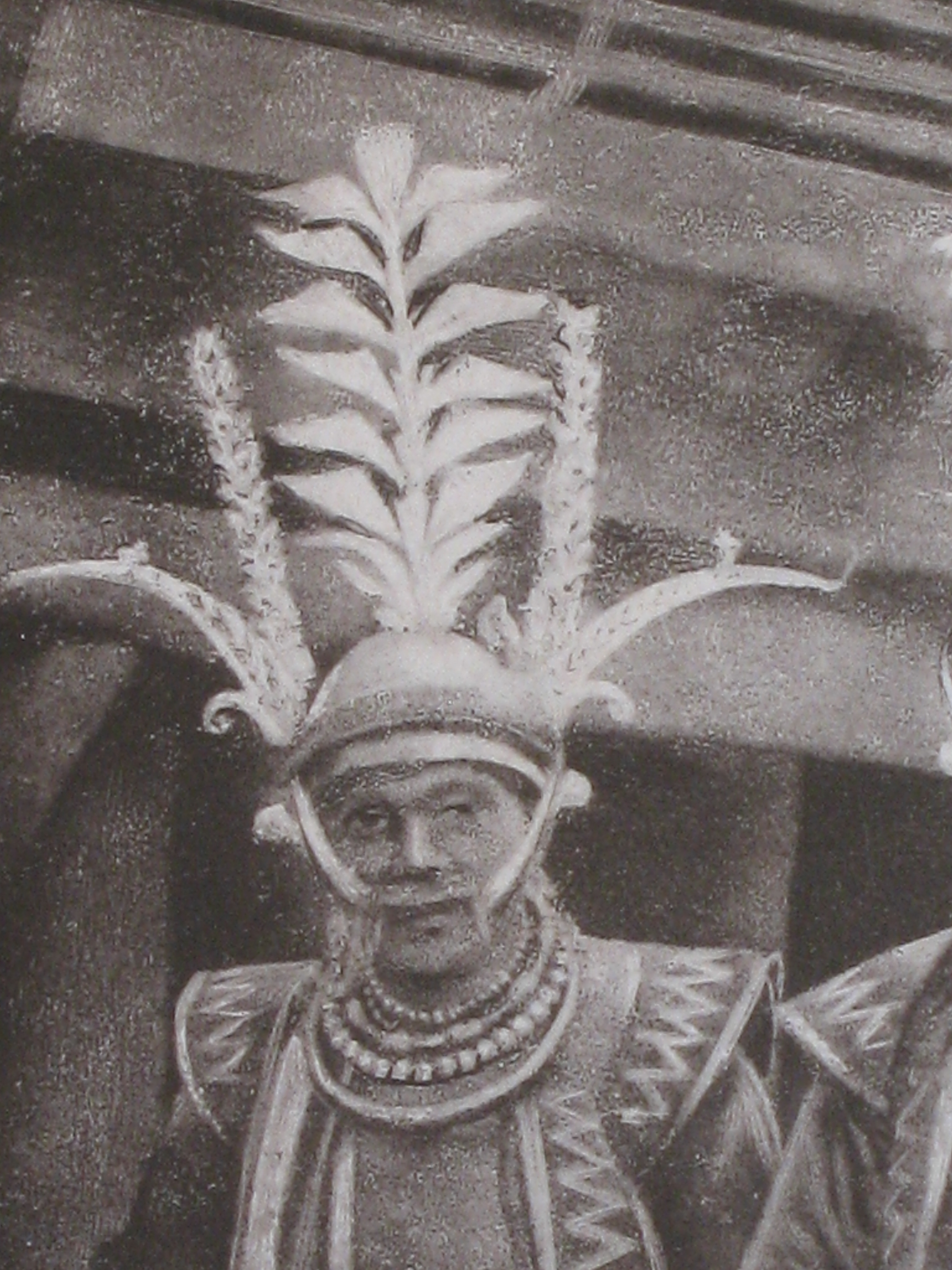 Chief Siduho Gheo of Hili Dgiono, Nias, 1886, in his official attire with war moustache